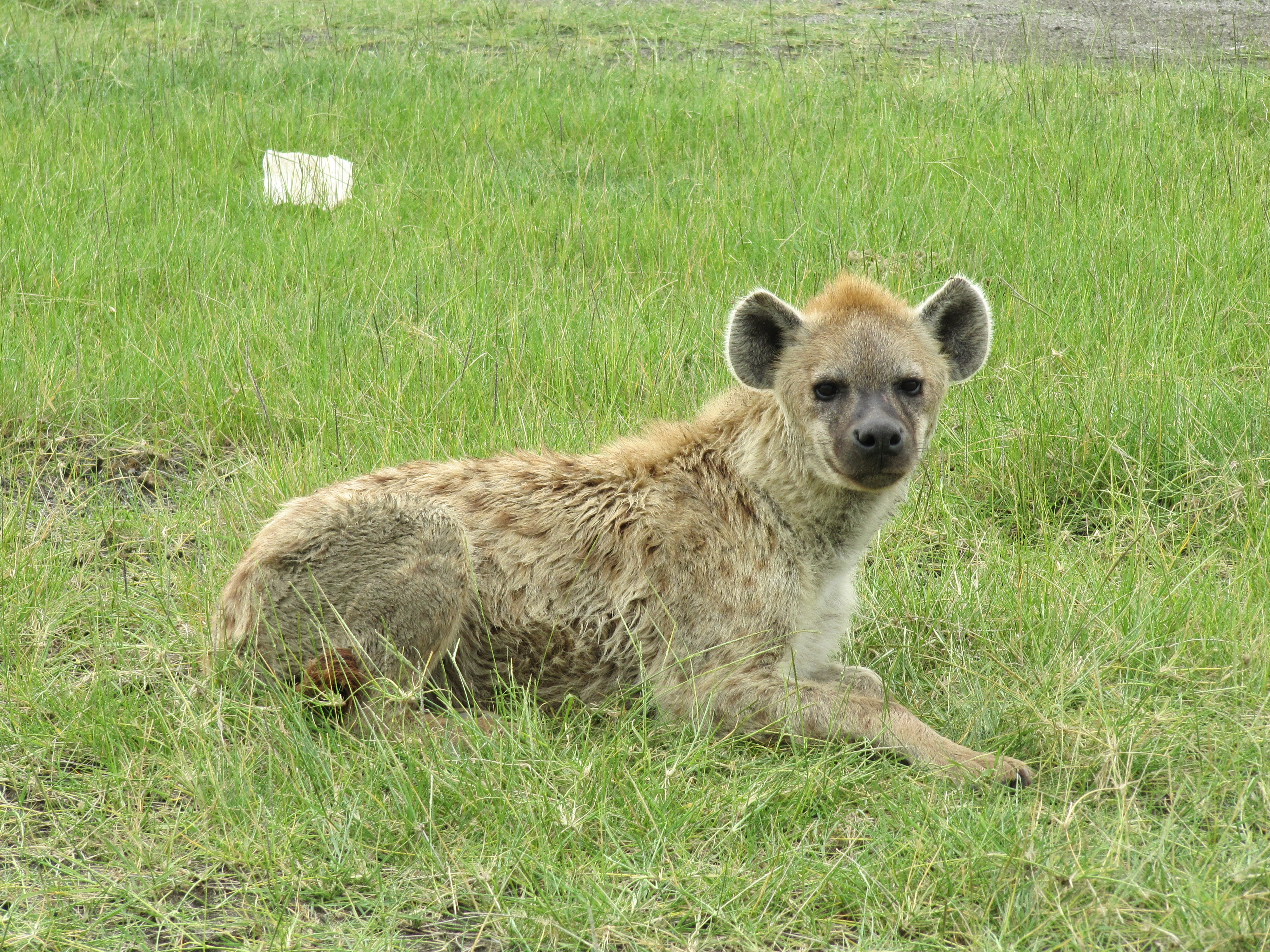 Spotted Hyena in Lake Nakuru National Park, Kenya